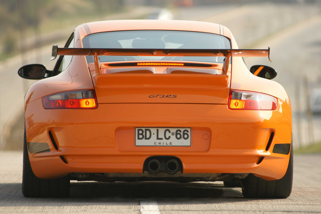 Porsche 997 GT3 RS. A superb car, with an incredible orange!